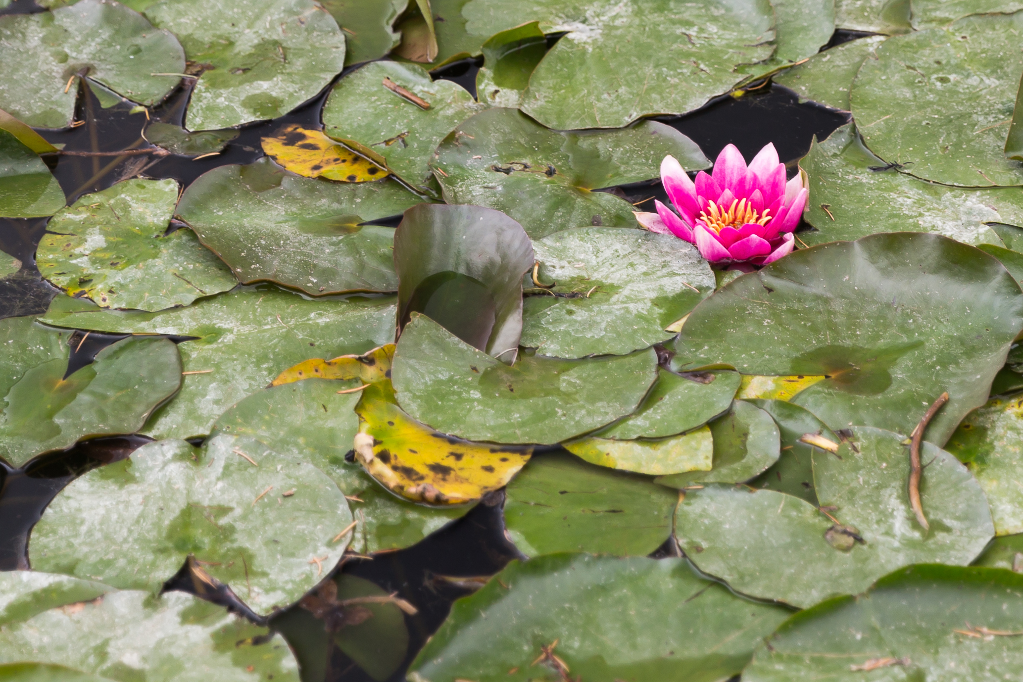 Nymphaea 'René Gérard' (water-lilie) in jardin botanique de Lyon, France.